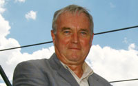 Pat McQuaid during the 2008 world championships mountain bike at Val di Sole.